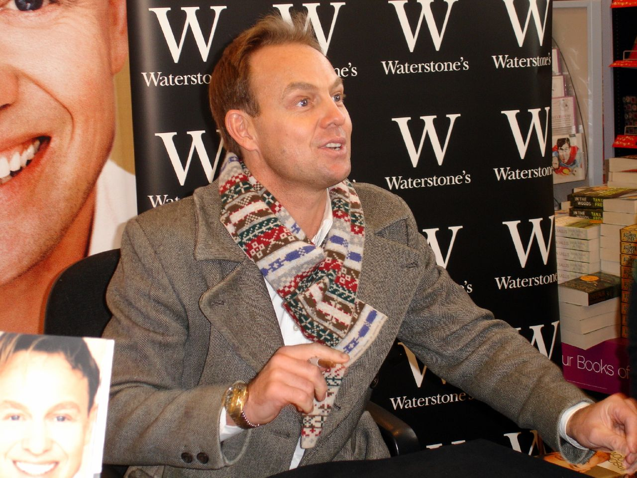 Jason signing copies of his autobiography at Waterstones Bournemouth on 14th December 2007